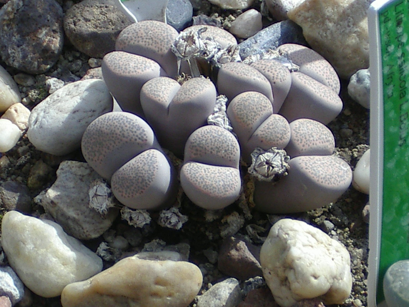 Lithops localis